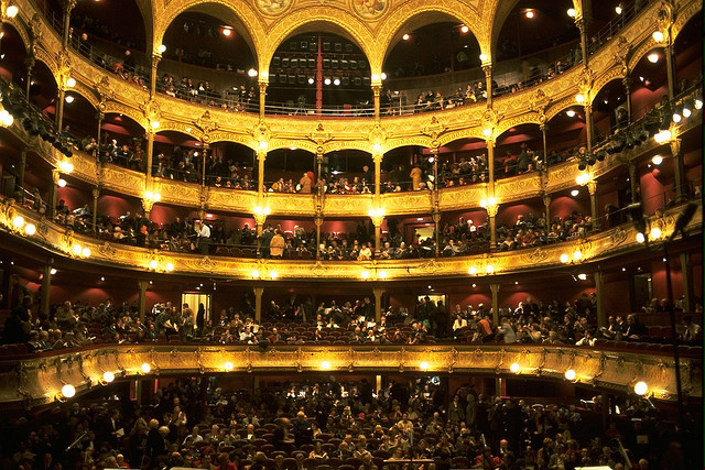 view of the audience